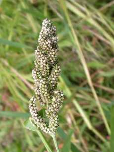 Copied from File:Hie.jpg: "..."